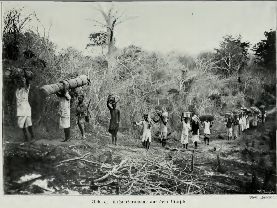 Carriers with provisions for the dinosaur excavations at Tendaguru, near Lindi, Tanzania. Picture by expedition head Walter Janensch between 1909 and 1912 Kiswahili: Msafara wa wapagazi wanaobeba vifaa na vyakula kwa kambi la kuchimbua mifupa ya dinosauri pale Tendaguru, Lindi, Tanzania. Picha ilichukuliwa na kiongozi wa msafara Walter Janensch kati ya 1909 na 1912